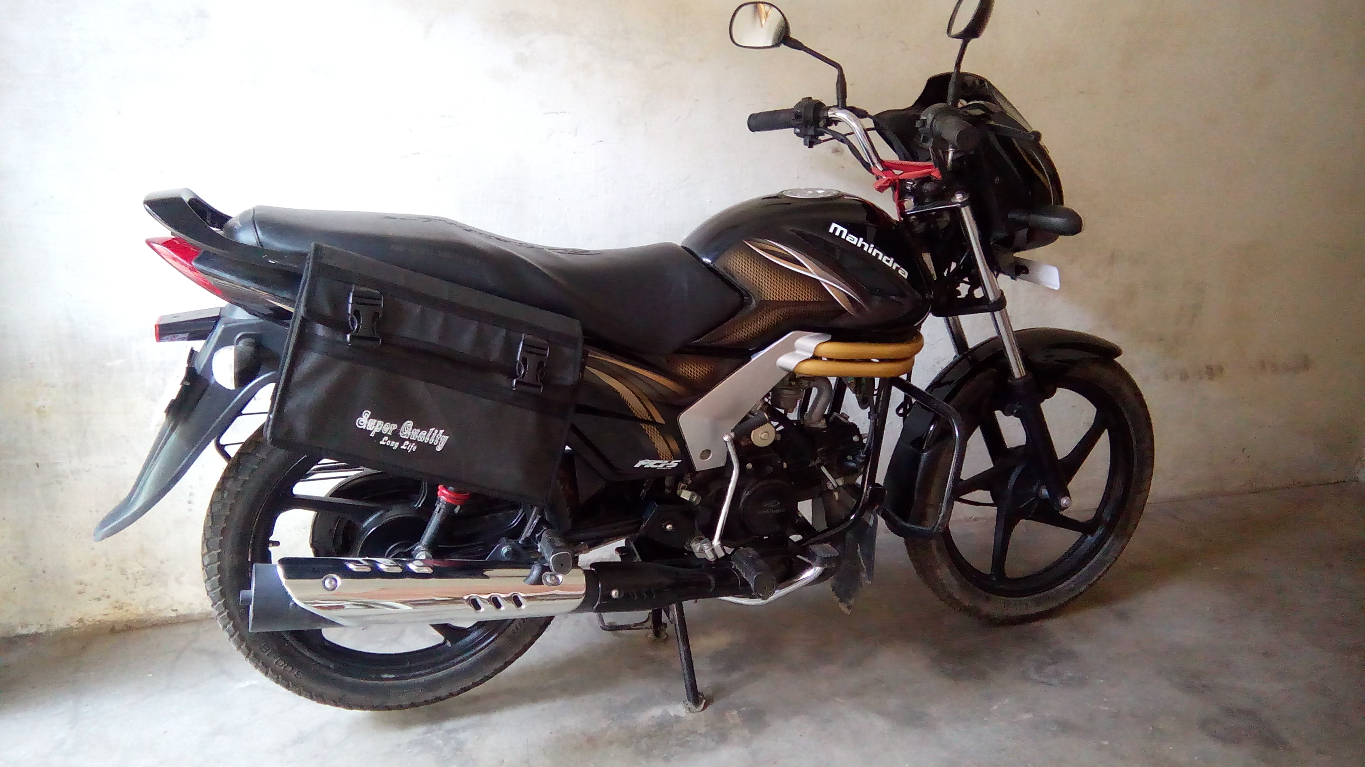 very good bike